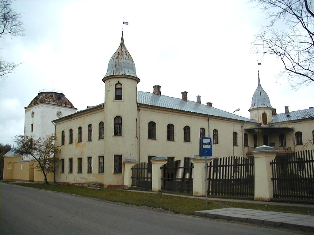 Krustpils Castle in Jēkabpils